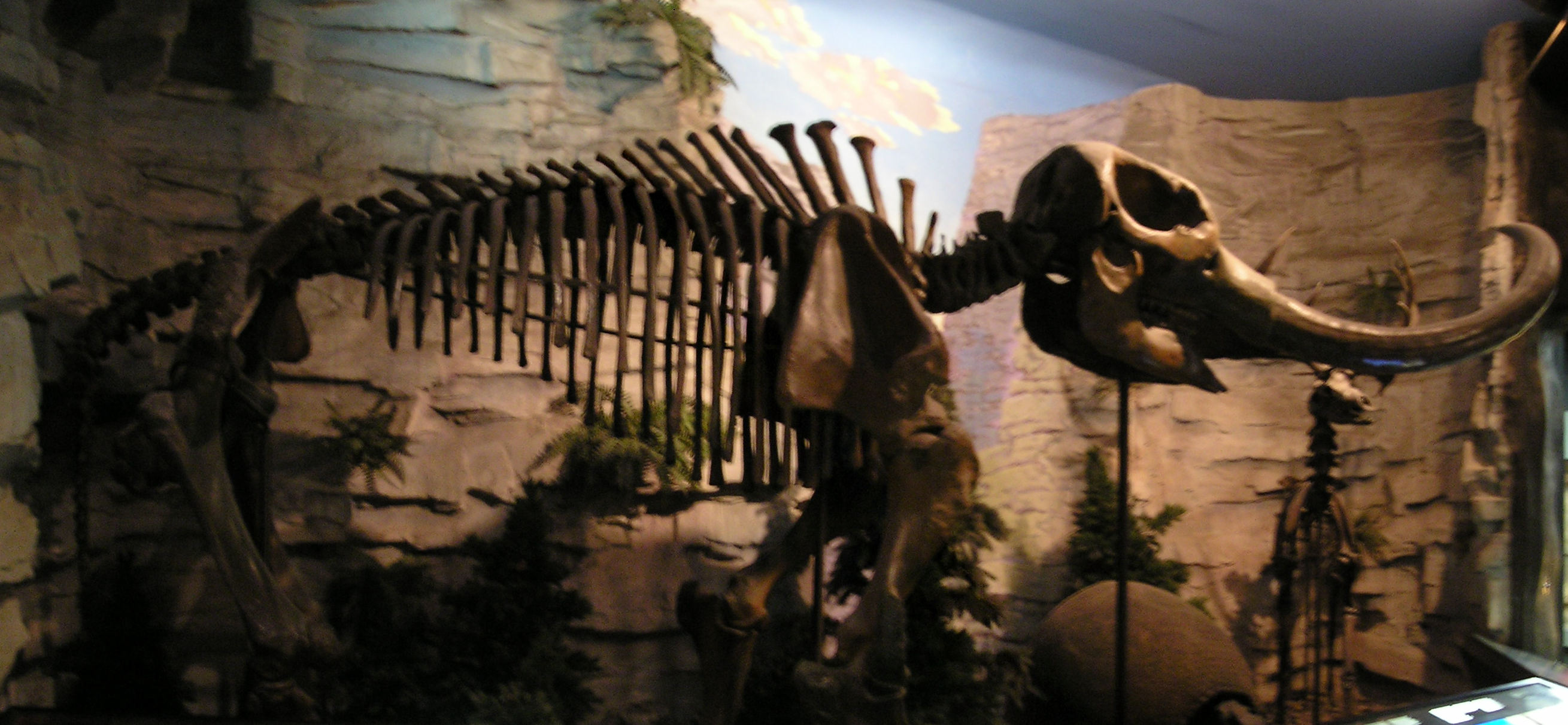 Mastodon skeleton on display at the old Dinosaur Gallery at the Royal Ontario Museum, Toronto. Picture taken on the final day the gallery was open, September 1, 2005.